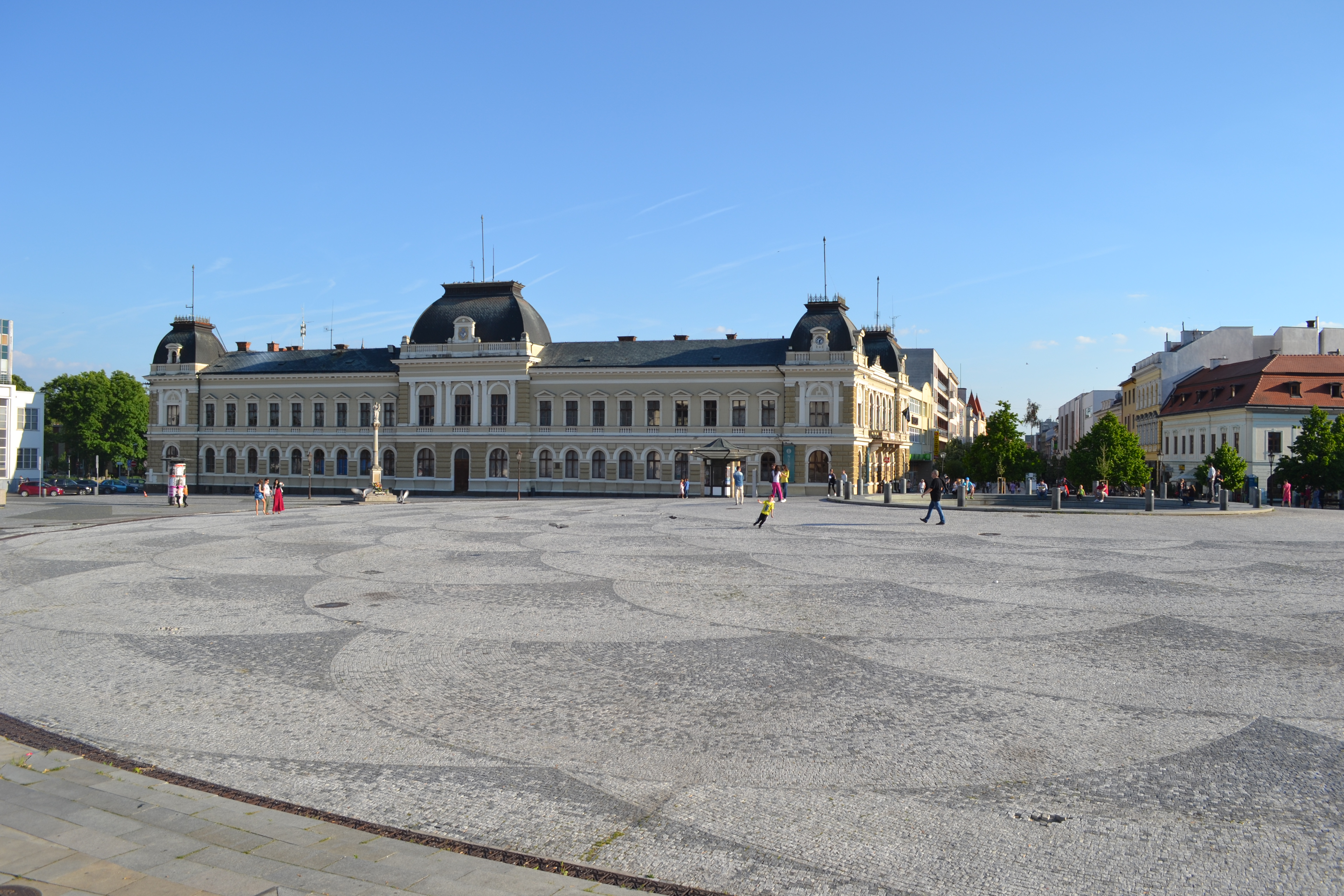 Svätopluk Square in NitraSlovenčina: Svätoplukovo námestie v Nitre